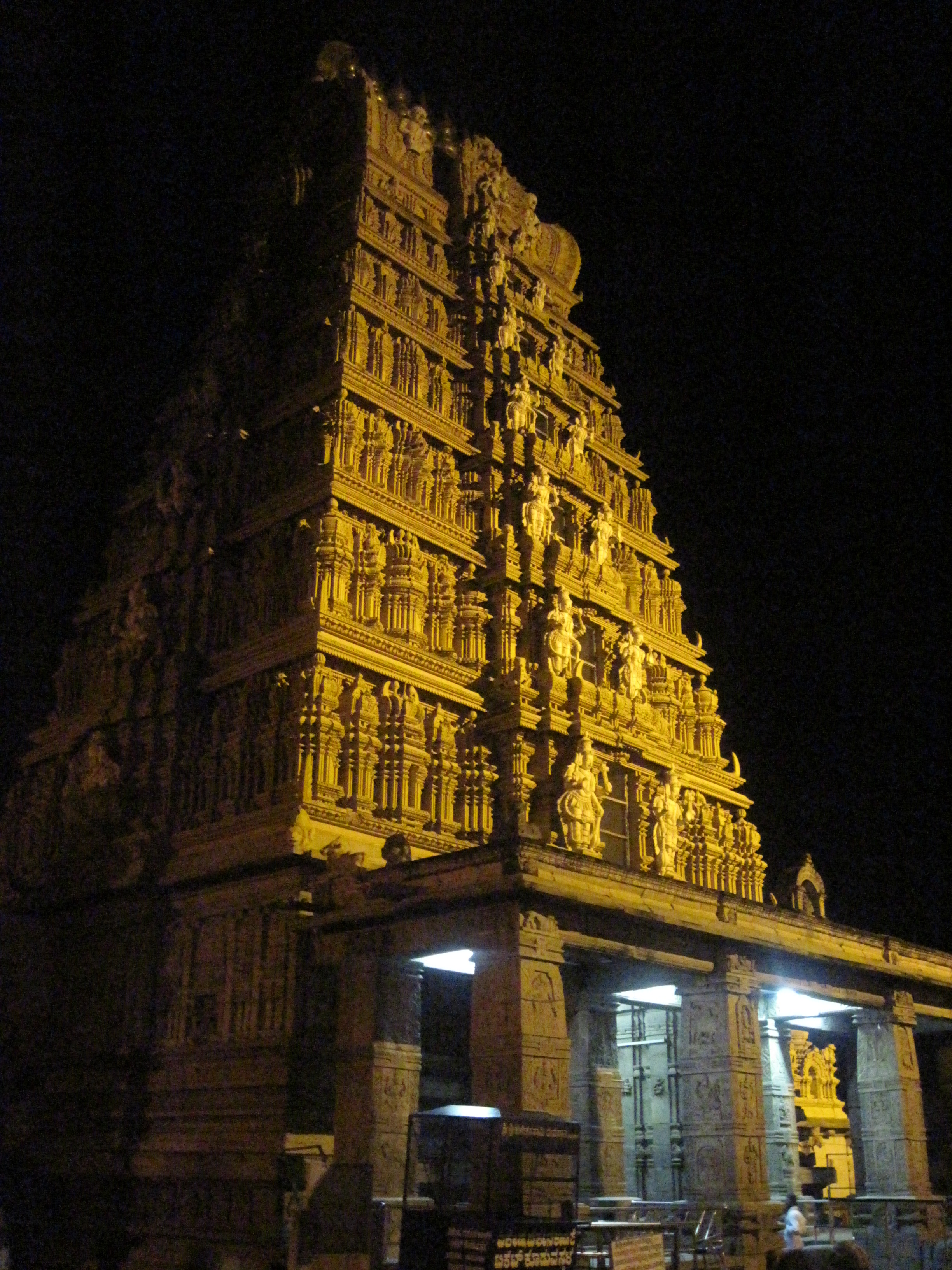 Nanjangud Temple at Night